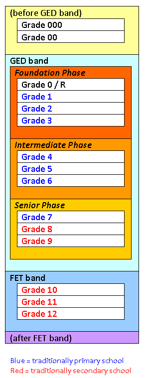 This graphic explains how the South African schools' grades are divided across phases, bands and the traditional school system.